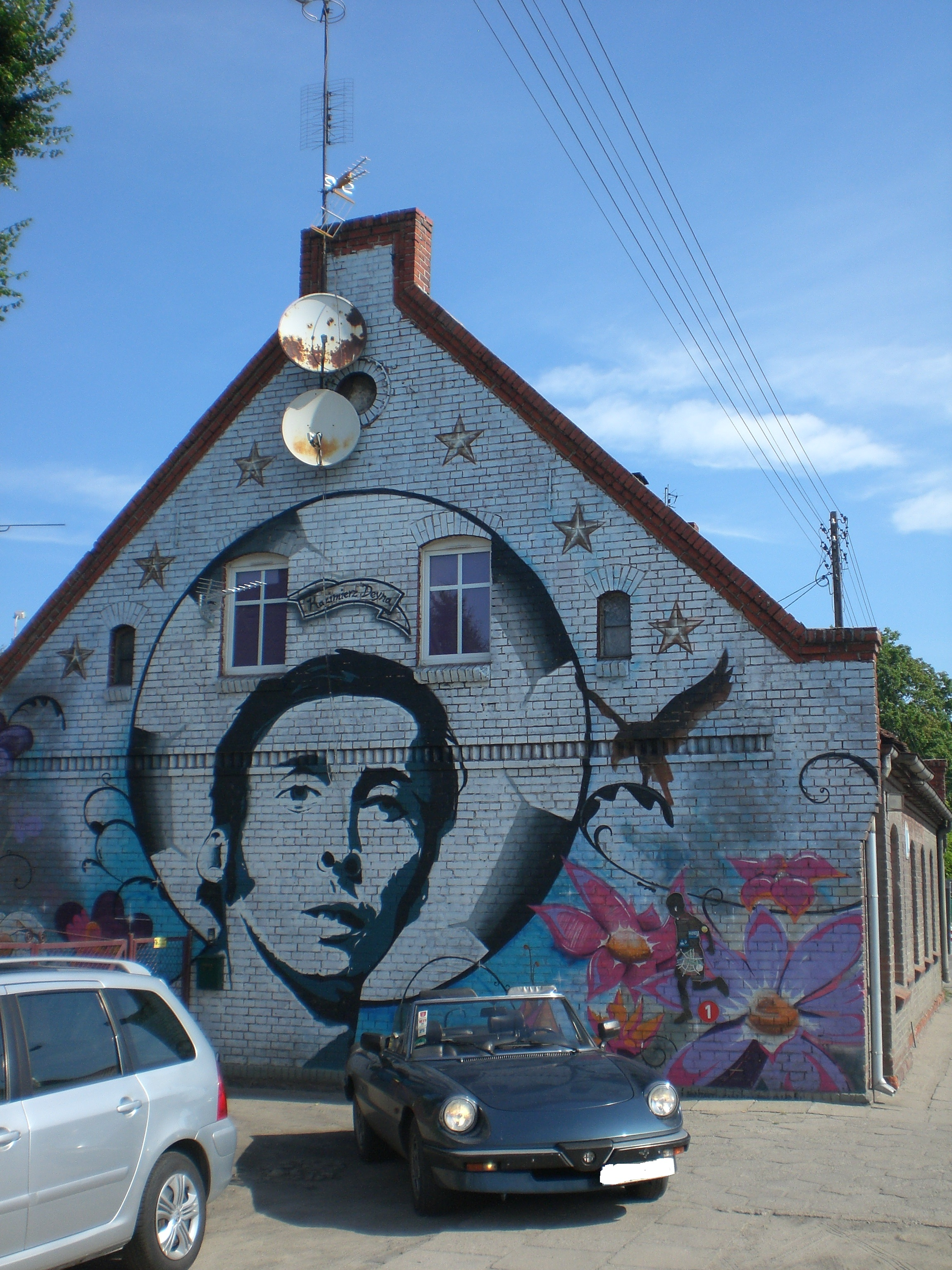 Starogard Gdański, ul. Lubichowska 86 - Kazimierz Deyna mural